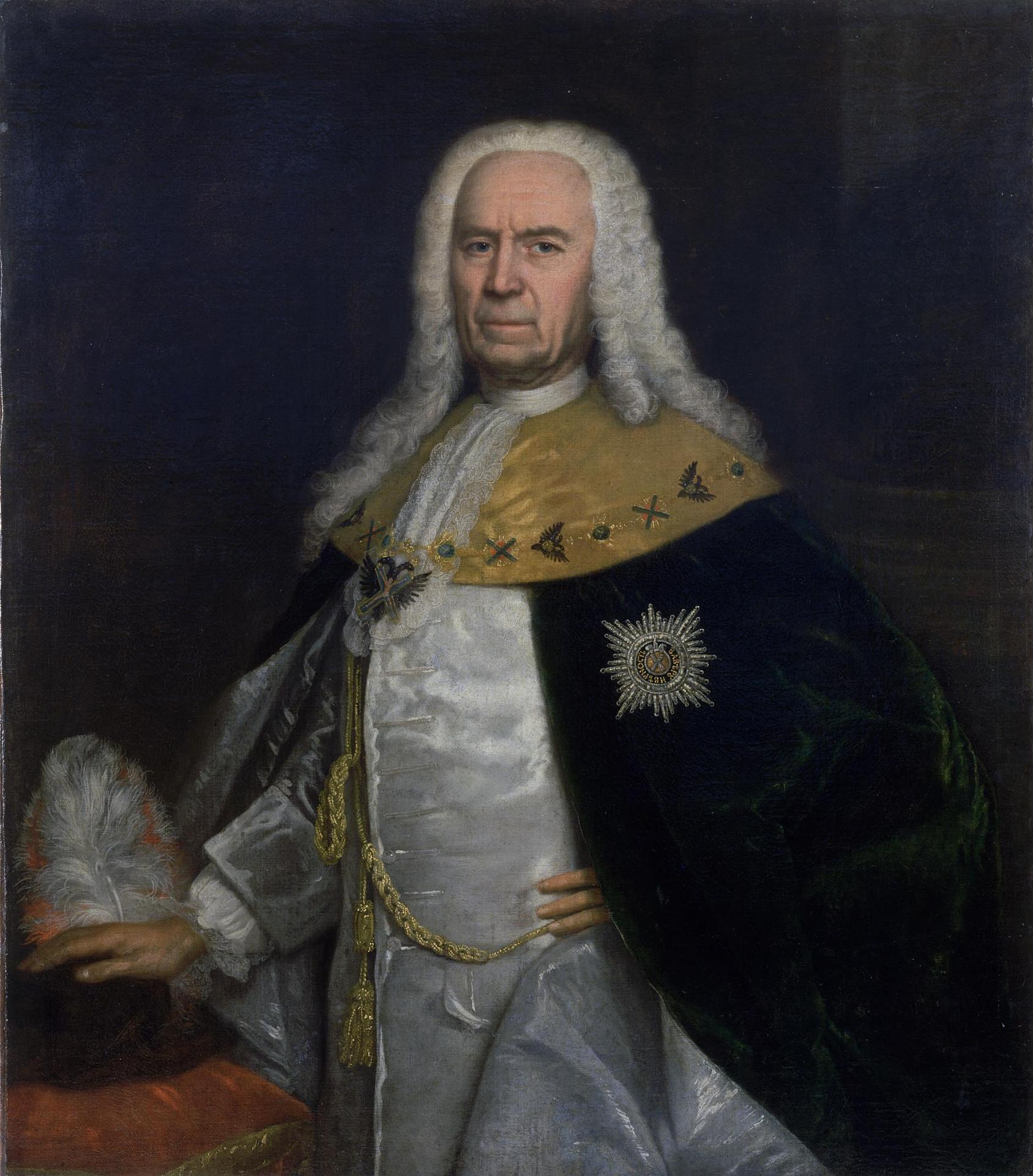 Unknown Artist. 1740-1744. Portrait of Andrey Ushakov